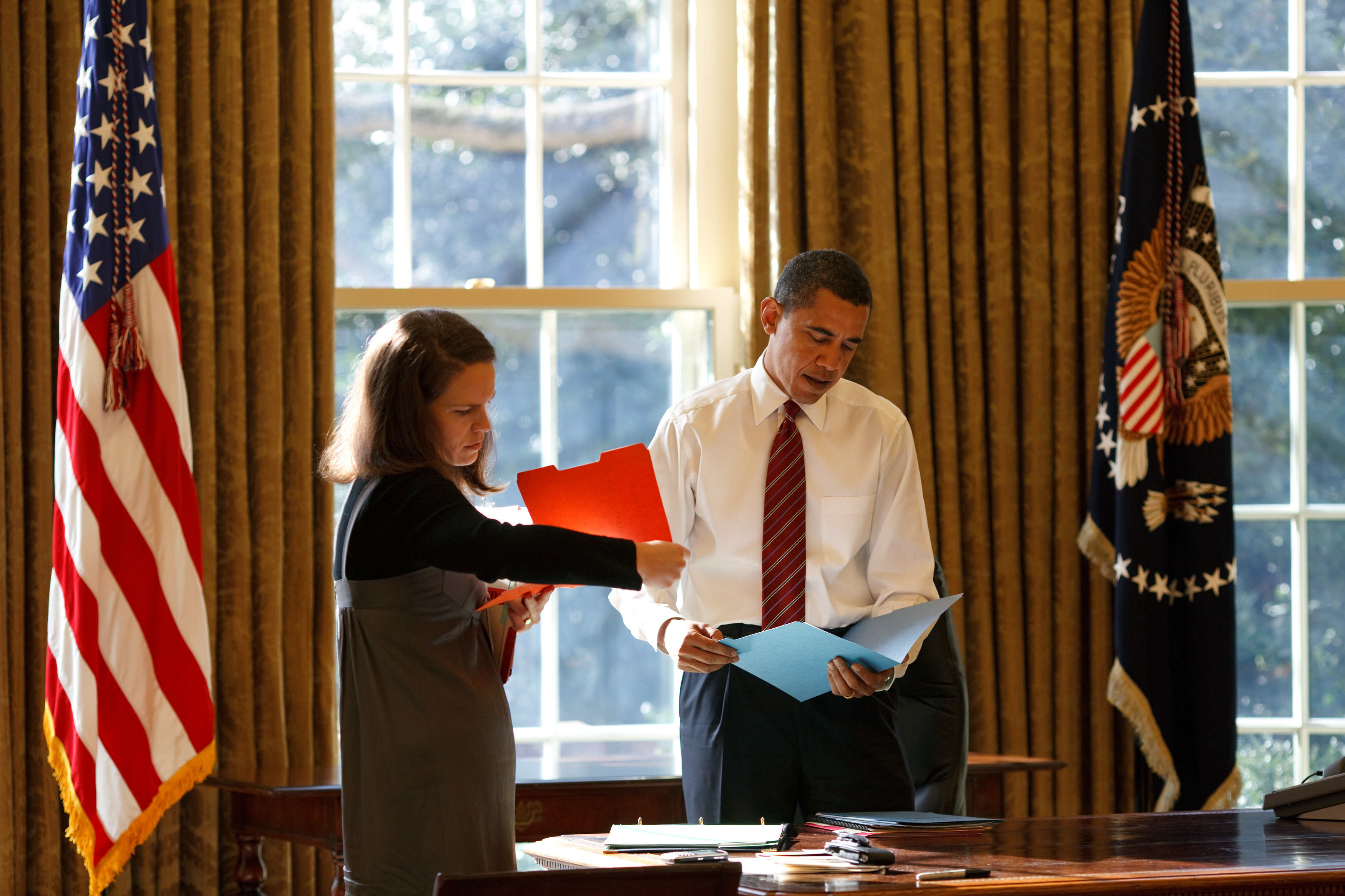 President Barack Obama looks at daily correspondence in the Oval Office with his personal secretary Katie Johnson 1/30/09.